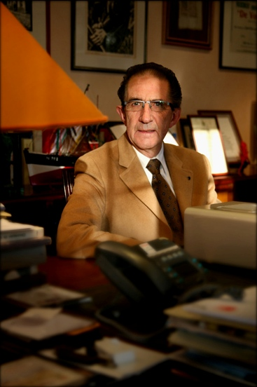 Willy Claes, Belgian politician, former Secretary General of NATO by Filip Naudts